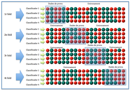 4-fold CV with 4 classificators